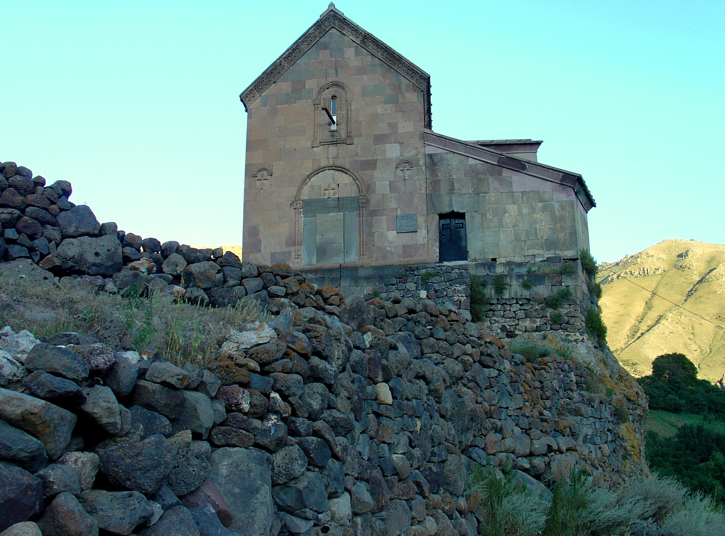 Tsunda church. View from west